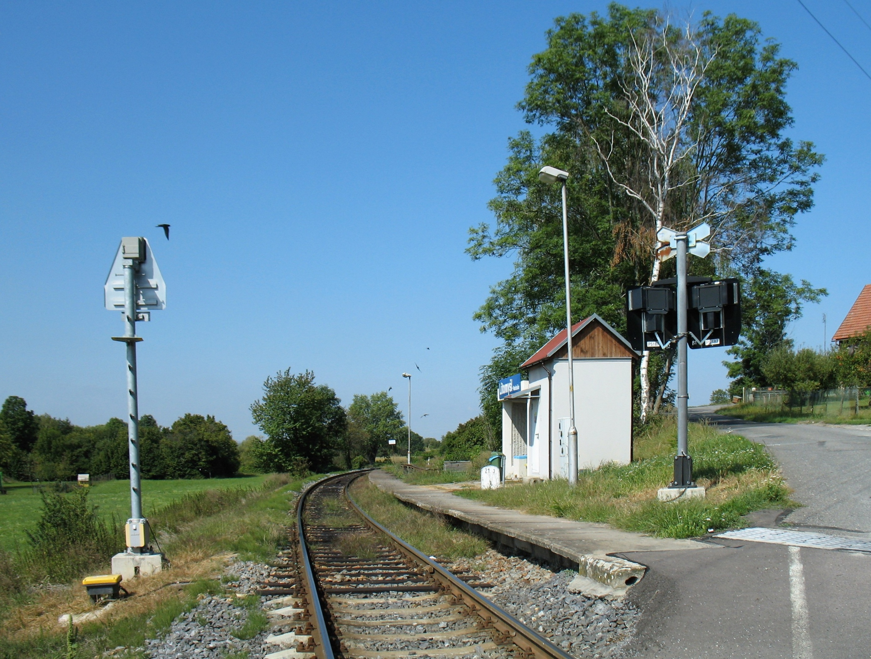 Train stop Nedošín near Litomyšl, Czech Republic